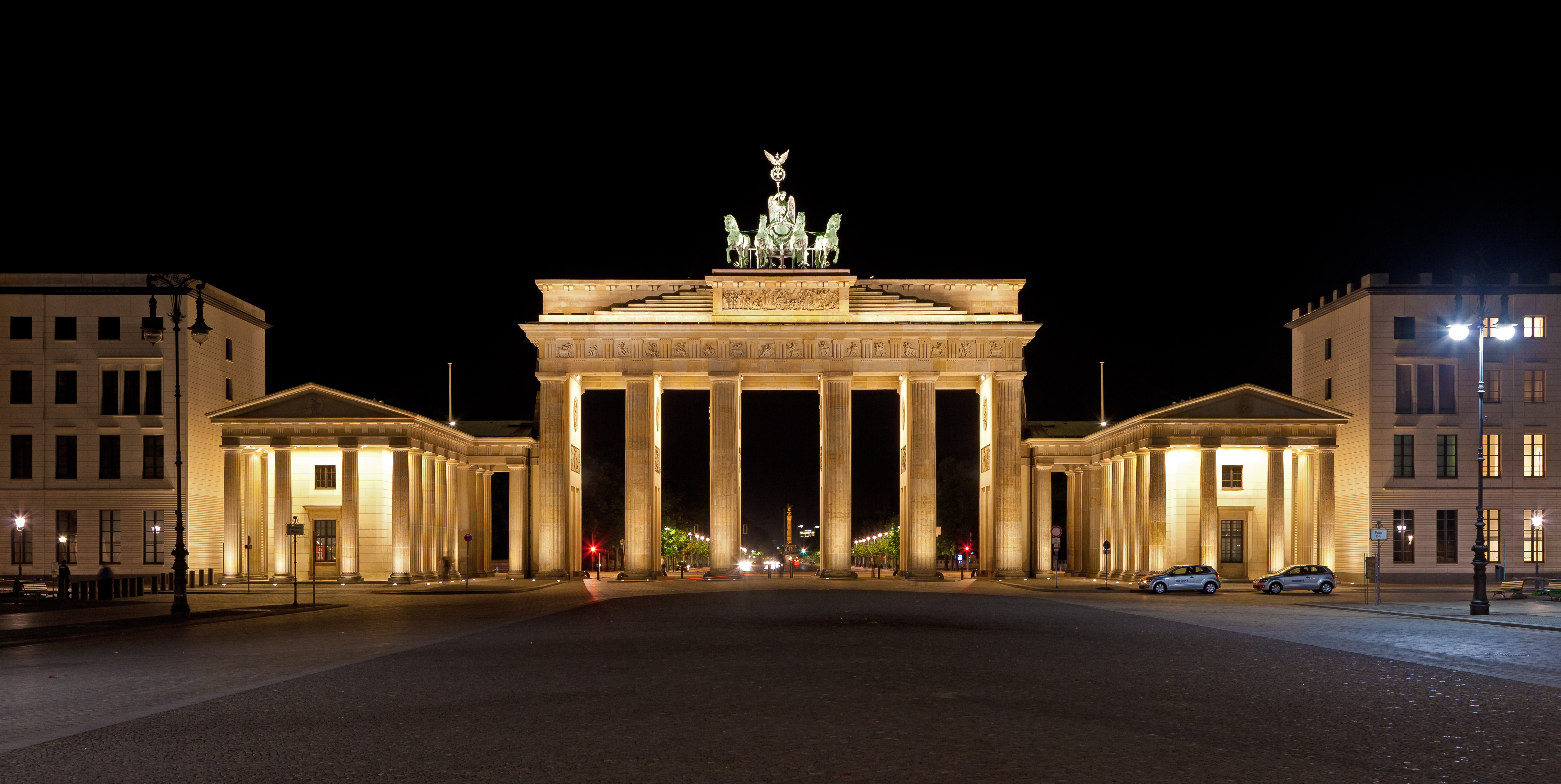 The Brandenburg Gate in Berlin, Germany